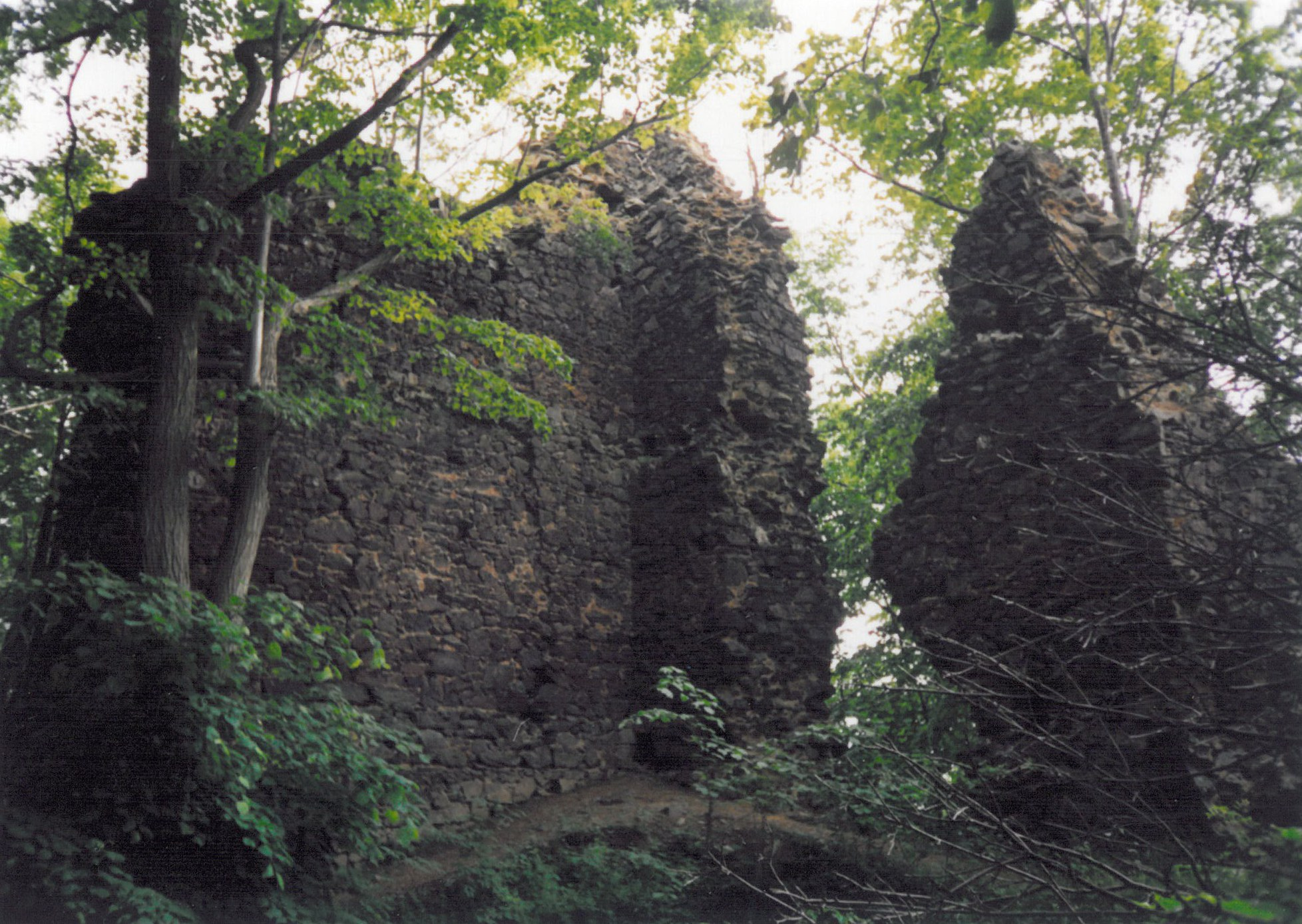 Netřeb - ruin of castle